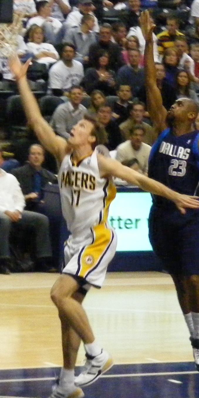 Mike Dunleavy Jr. Driving to the basket for a layup during a Pacers' game in December 2007.